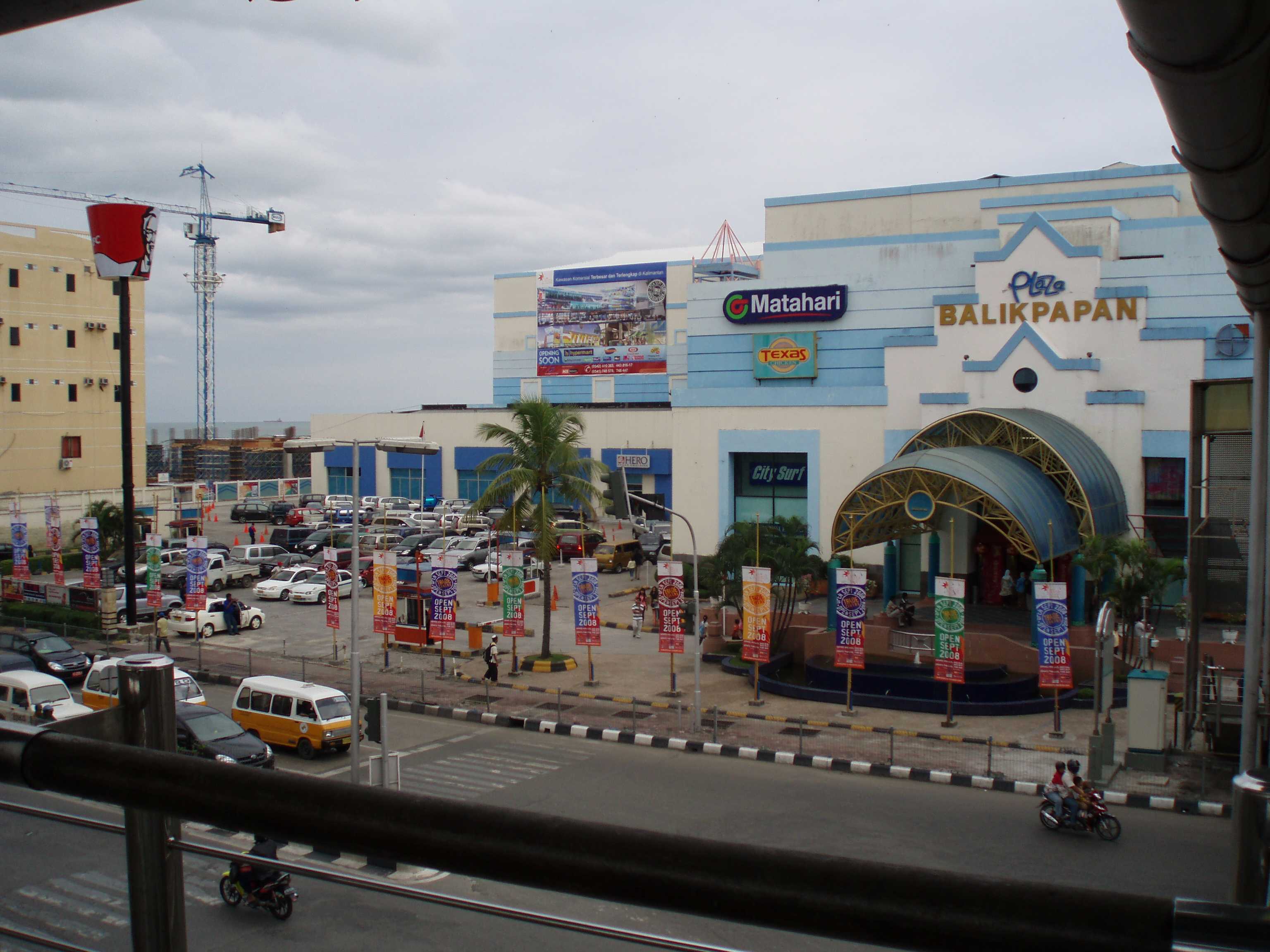 The Plaza Balikpapan, February 2008.